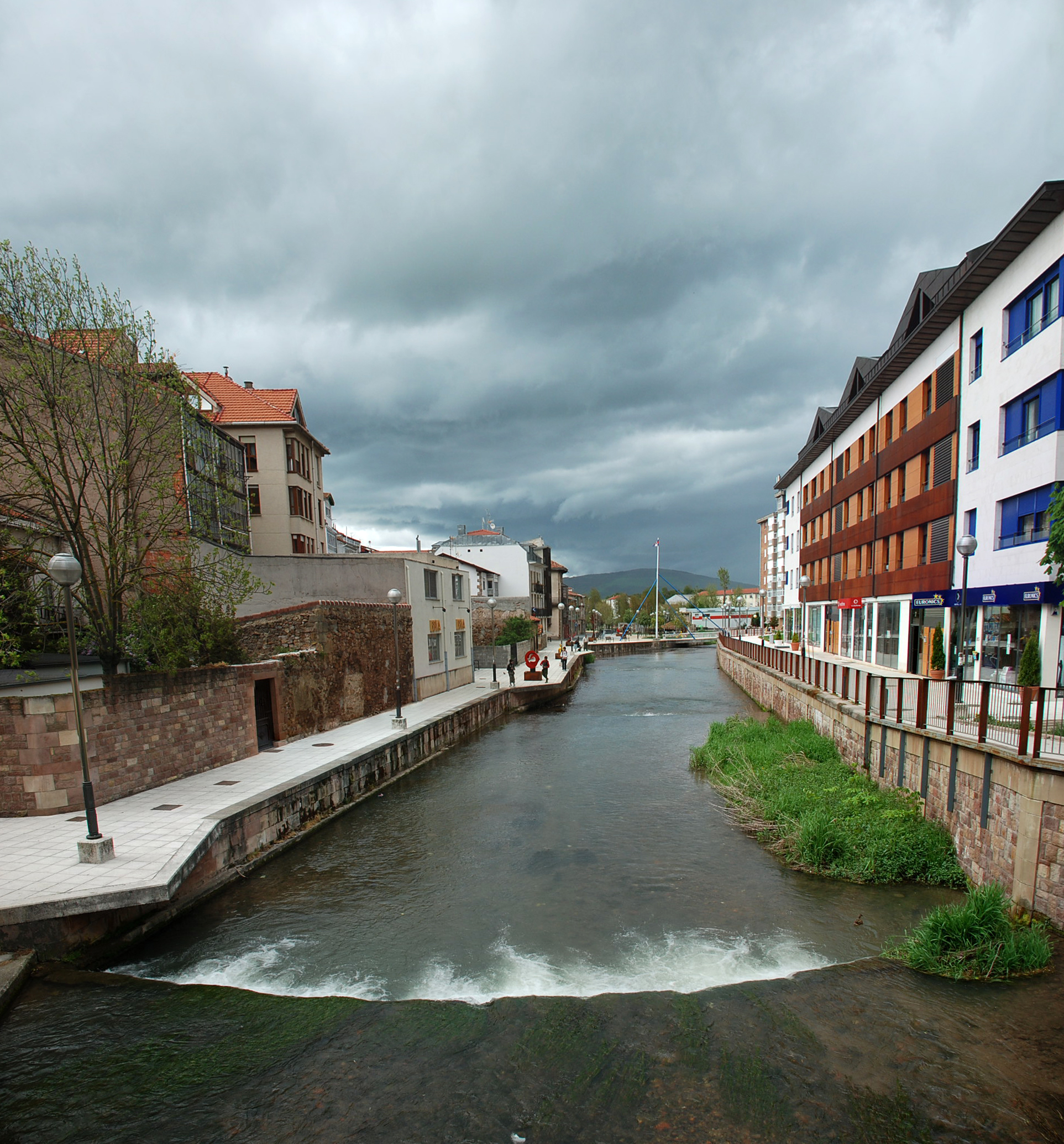 Ebro river across Reinos (Cantabria, Spain).